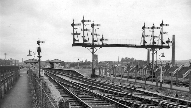 Bedminster Station. View westward from short of Temple Meads end of station, towards Weston-super-Mare and Taunton; ex-GWR Bristol - Taunton - Exeter Main line.